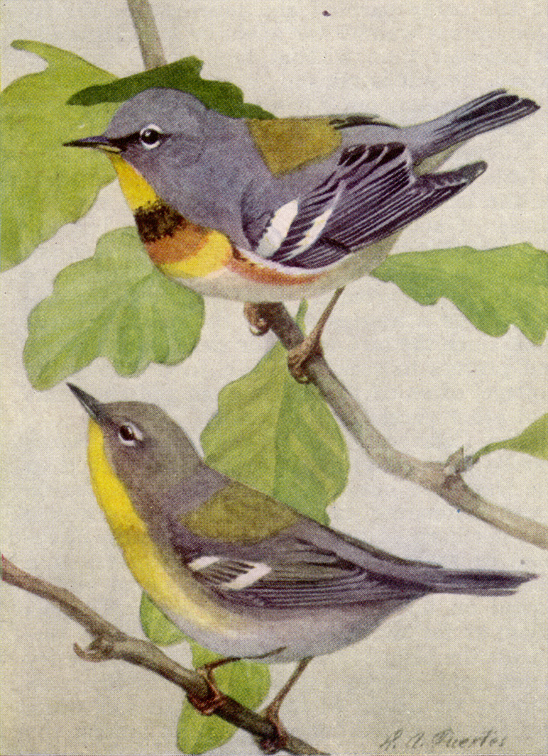 PARULA WARBLER. Male and Female.